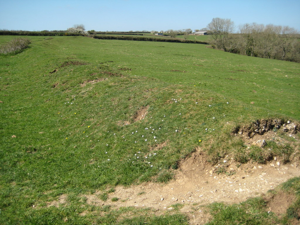 Earthworks at Berry Camp. Earthworks, part of the Iron Age hillfort of Berry Camp above Berry Cliff near the village of Branscombe.